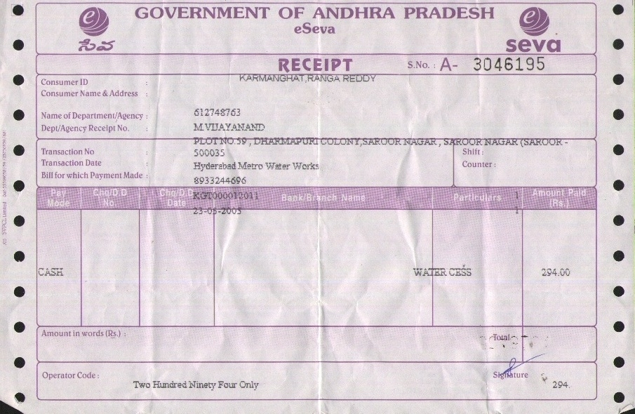 This image illustrates the E-Seva (Online Payment to most mostly Public Sector Services) in Andhra Pradesh, India.